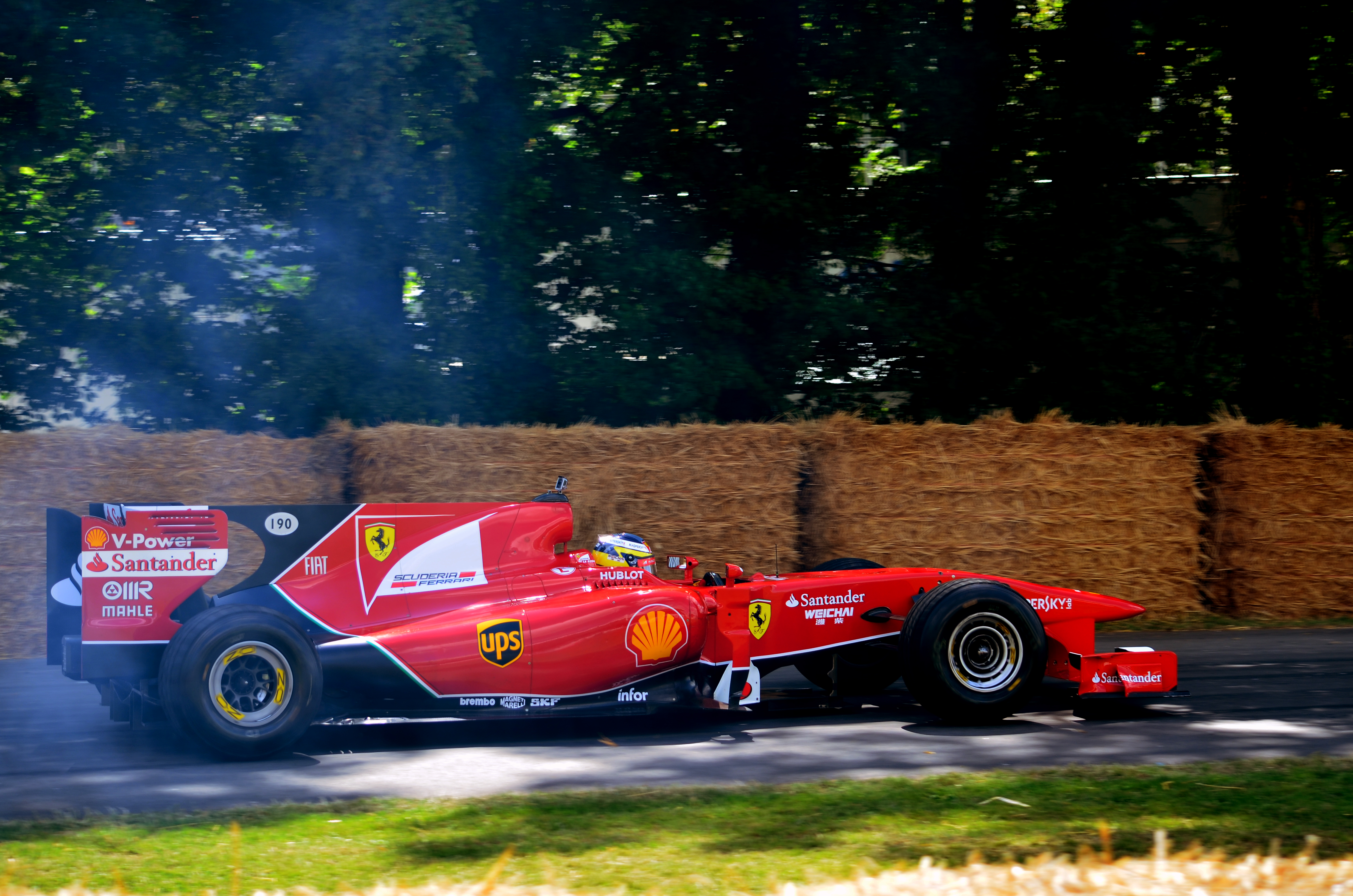 Pedro de la Rosa driving the 2010 Ferrari F10 (in 2014 Ferrari livery) at the 2014 Goodwood Festival of Speed.